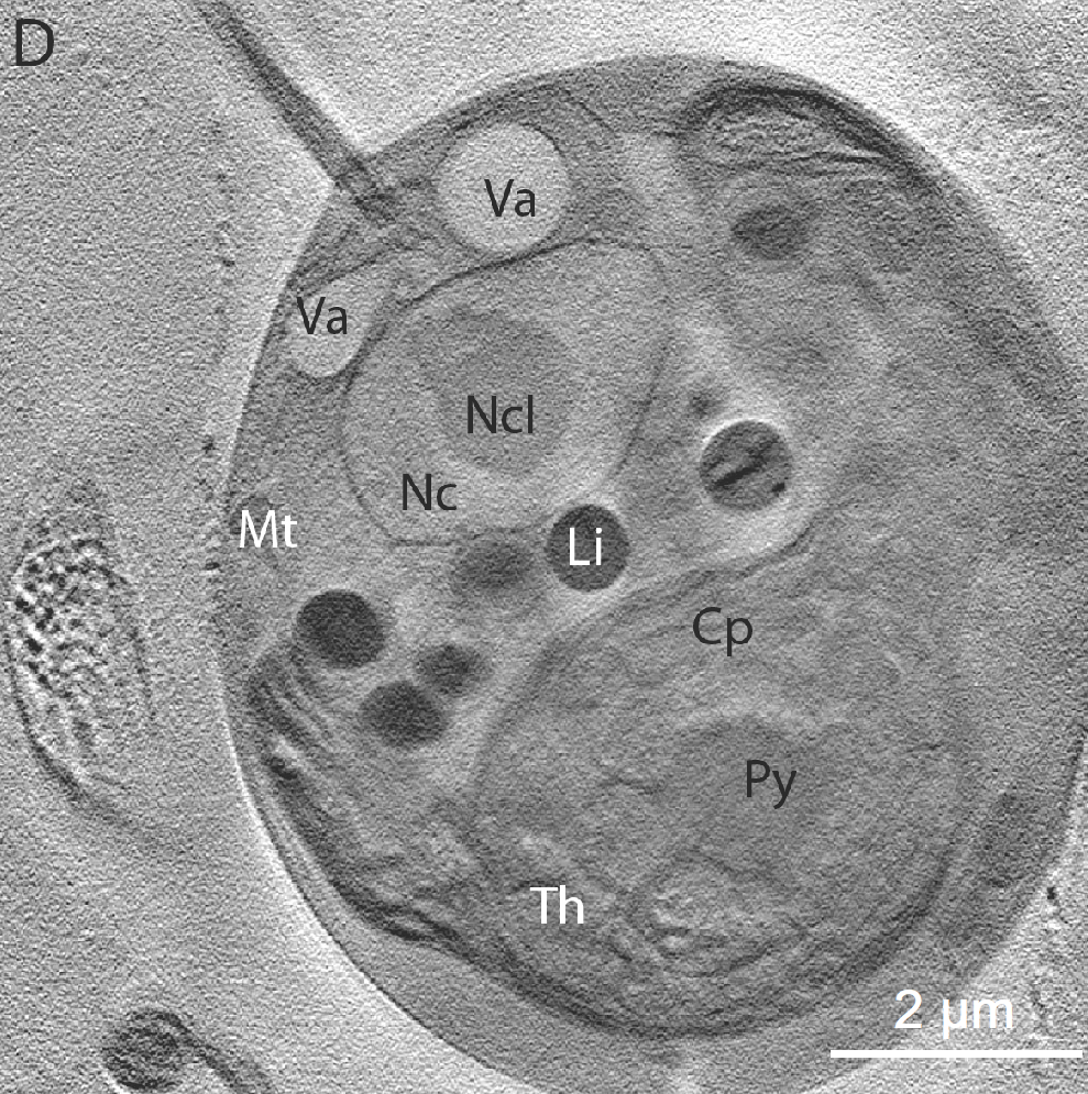 X-ray microtomography of Chlamydomonas reinhardtii